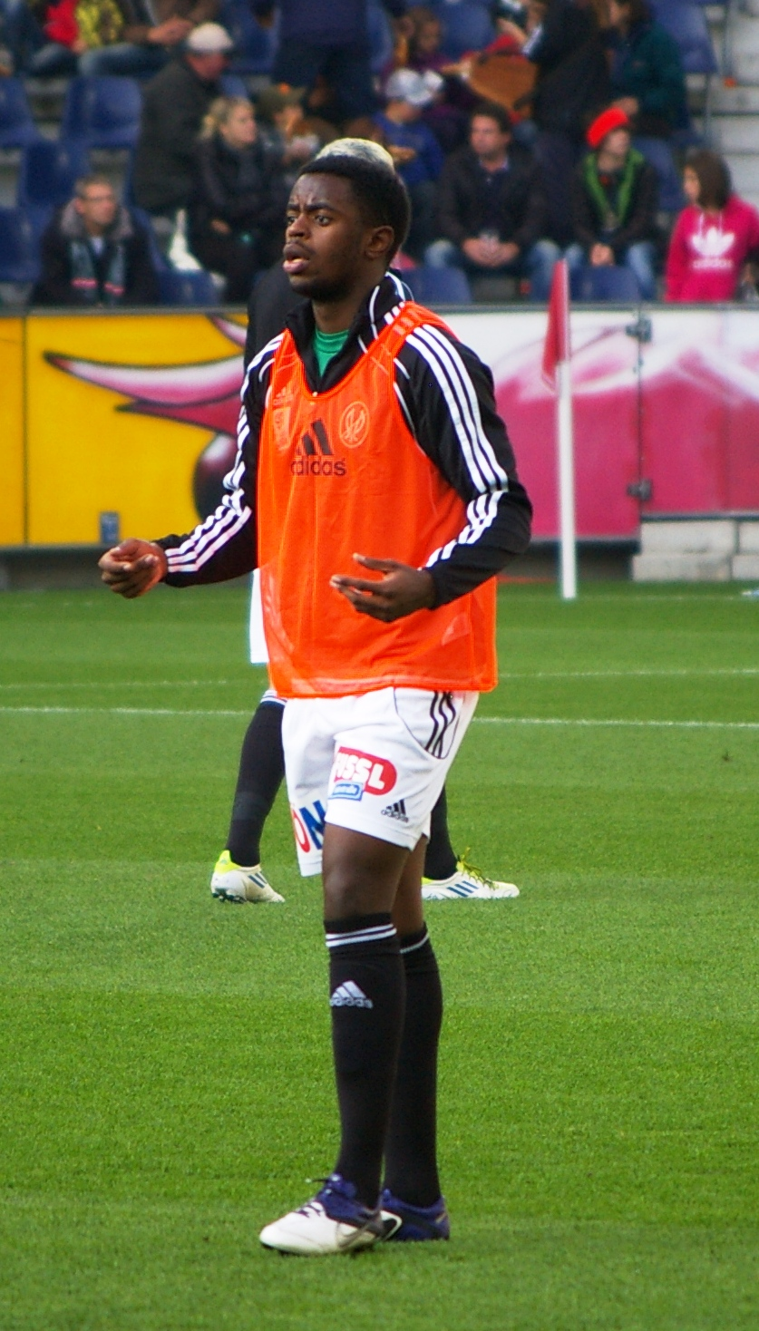 Midfielder SV Ried